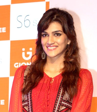 Actress Kriti Sanon at the launch of a new mobile phone by Gionees in August 2016